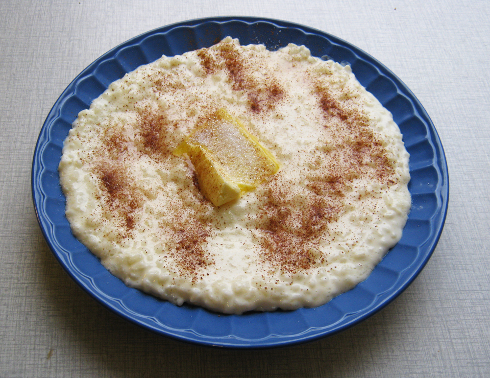 Norwegian rice porridge with cinnamon, sugar and butter. This is the dinner version, not the dessert (rice pudding) where you take this dish and add cream, and don't add cinnamon or butter.